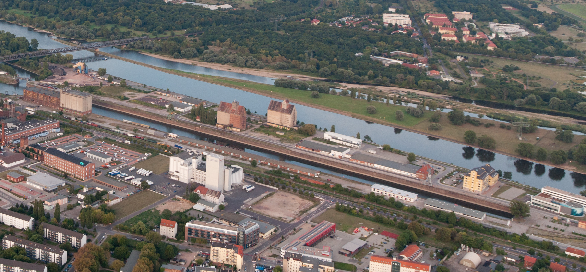 Aerial photograph of the district Alte Neustadt in Magdeburg